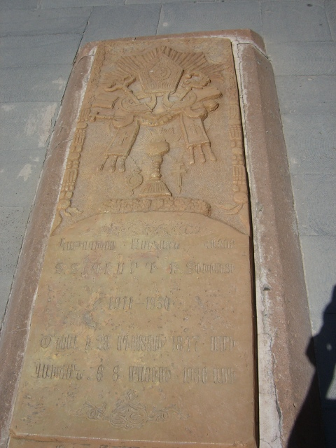 George V of Armenia (in Armenian Գևորգ Ե. Սուրենյանց (Տփղիսեցի) (born in Tbilisi on 28 August 1847 - died Etchmiadzin, Armenian Soviet Socialist Republic on 8 May 1930) was the Catholicos of All Armenians of the Armenian Apostolic Church in the Mother See of Holy Etchmiadzin from 1911–1930 following Catholicos Matthew II (in Armenian Մատթեոս Բ Կոստանդնուպոլսեց) who had died on 11 December 1910 after less than three years as Catholicos.